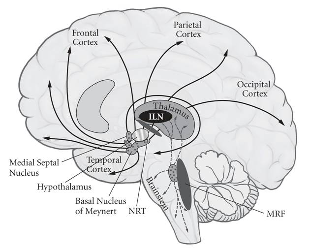 Image is taken from Christof Koch ( (2004) "Figure 5.1 The Cholinergic Enabling System" in The Quest for Consciousness: A Neurobiological Approach, . Roberts & Co., p. 91 ISBN: 0974707708. with permission from the author under license